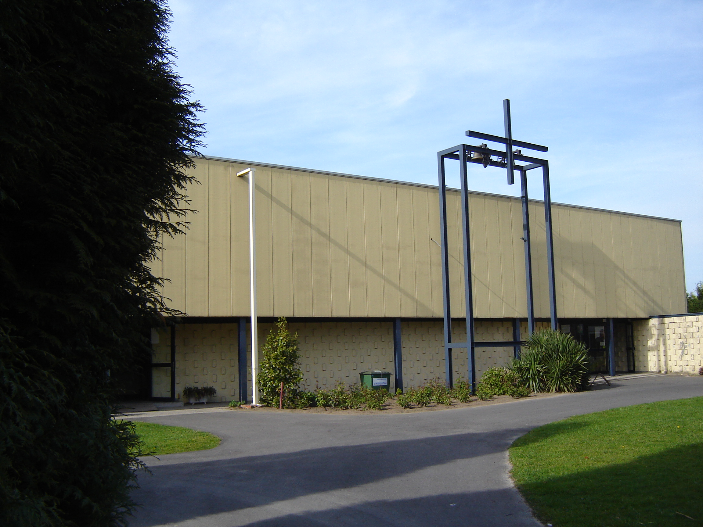 Church of Saint Pius X in Eenbeekeinde, Destelbergen. Destelbergen, East Flanders, Belgium